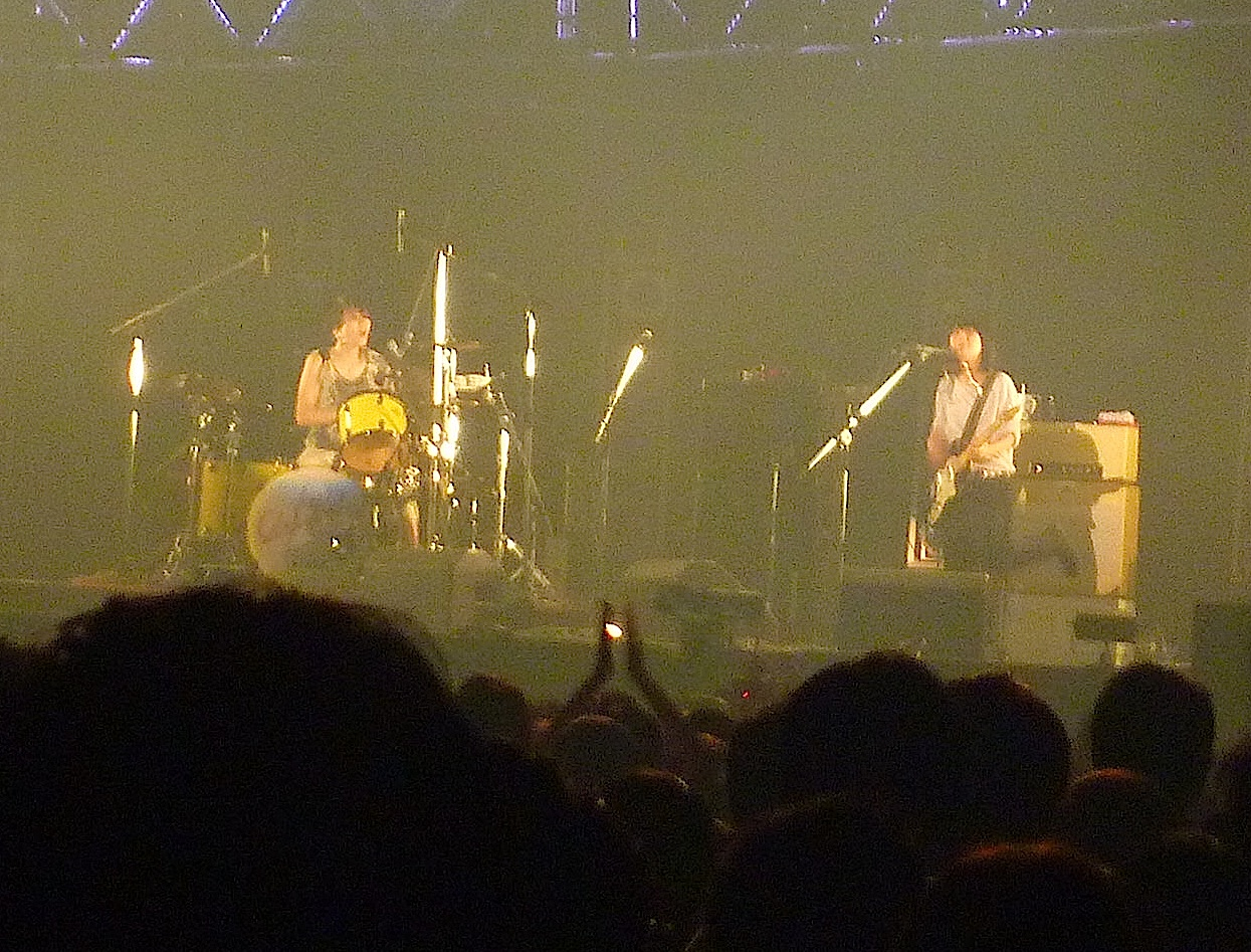 J-pop group "Chatmonchy" (at "Countdown Japan" music festival.)